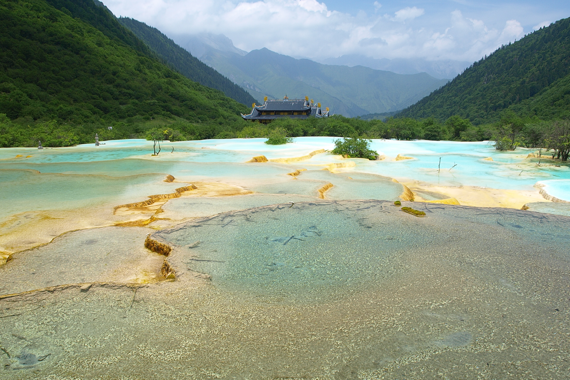 Five-colored-Pond and Huanglong-temple, Huanglong, Sichuan, China.